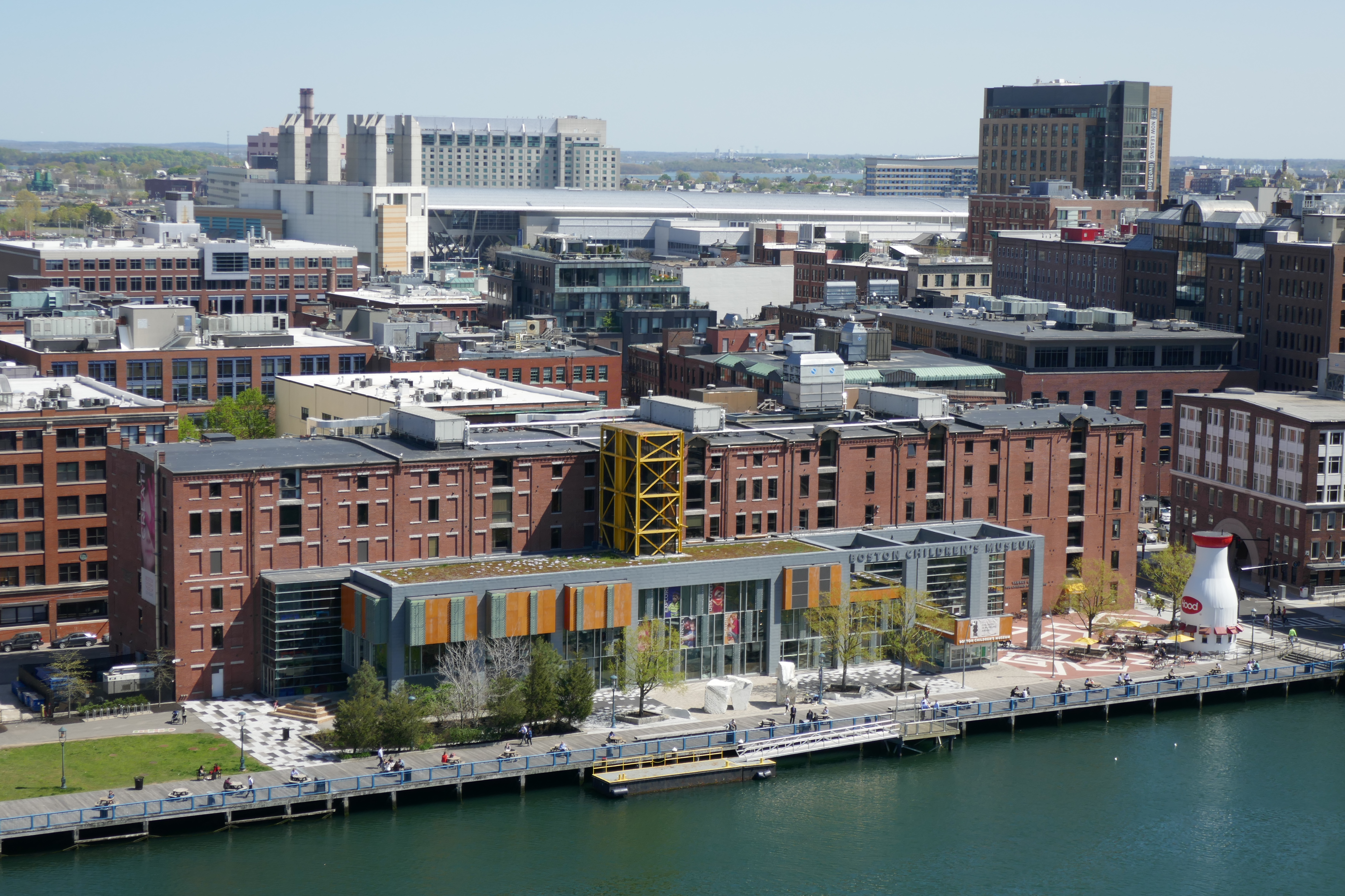 Boston Childrens Museum and Fort Point Channel